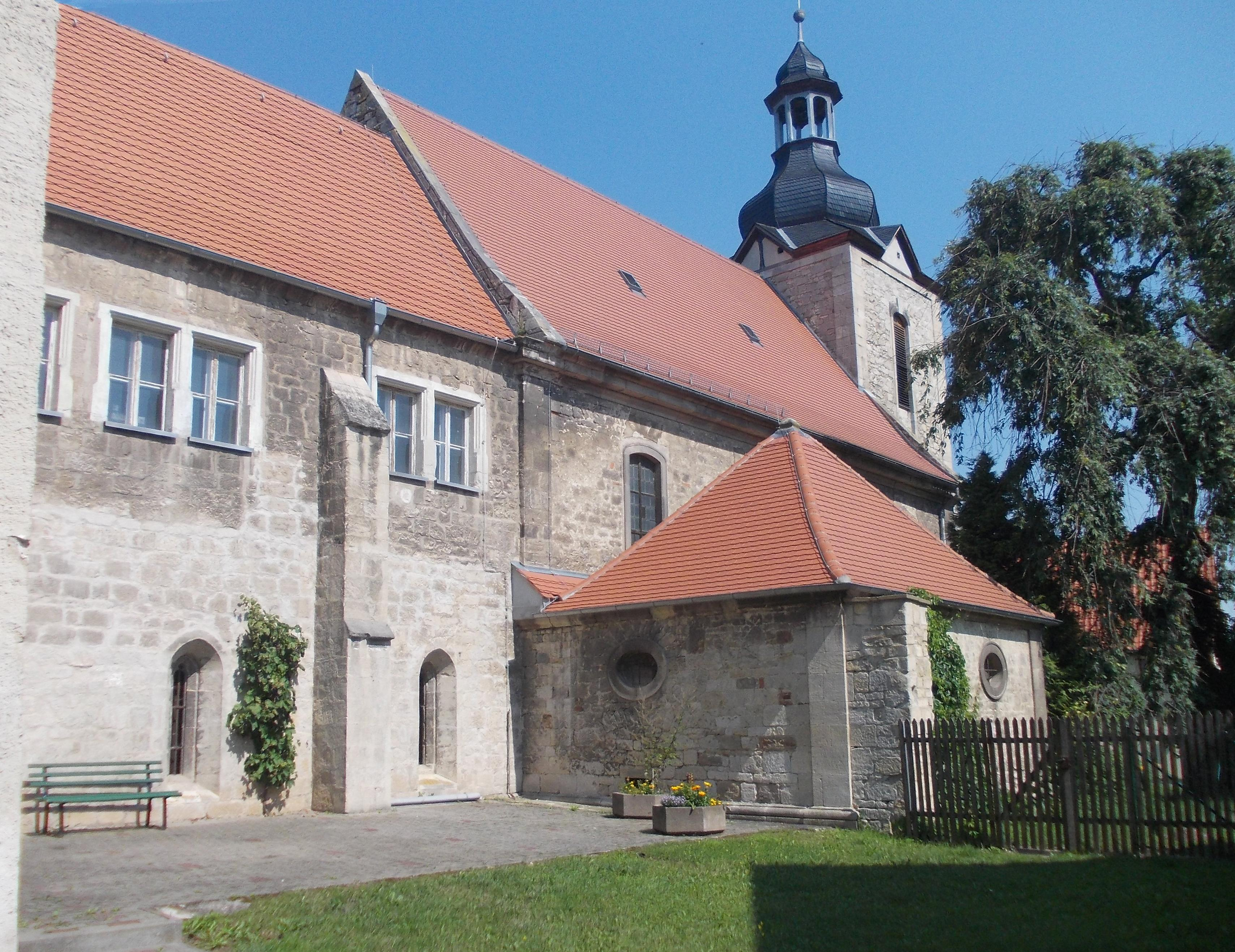 Klosterhäseler church (An der Poststraße, district: Burgenlandkreis, Saxony-Anhalt)